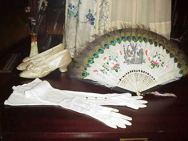 Fashionable gloves, folding fan and shoes photographed at The Royal British Columbia Museum, Victoria, British Columbia, Canada